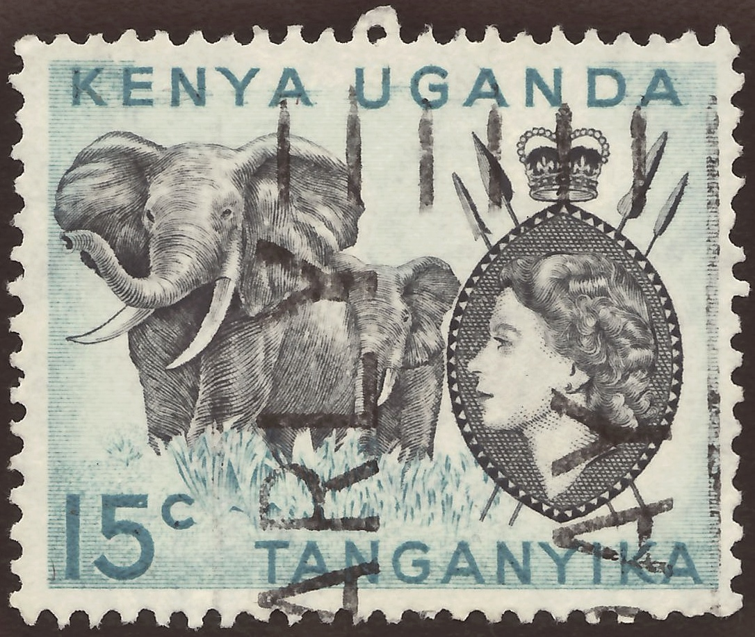 Stamp of British East Africa - KUT ("KUT" = the British colony "Kenya", the British protectorate "Uganda", and the British mandate area "Tanganyika"); 1958; definitive stamp of the issue "Local motives - Queen Elizabeth II of the United Kingdom"; stamp drawing with two African elephants (Loxodonta africana) together with a cameo drawing of Queen Elizabeth II of the United Kingdom with view to left as central motive on an East African coat of arms in the shape of a standing converging lens over four spears and with a crown over the upper peak of the shield; speacial characteristic of this stamp: without a point under the "C" at "15 C"; stamp postmarked Stamp: Michel: No. 94I; Yvert et Tellier: No. 95A; Scott: No. 105 Color: blue / light blue / black Watermark: British East Africa No. 4 (= Great Britain No. 4) (multiple Saint Edward's crown over convoluted charcters "CA") Nominal value: 25 C (Cents) Postage validity: from 28 March 1958 until ? Stamp picture size (printed area): 31.0 x 24.5 mm